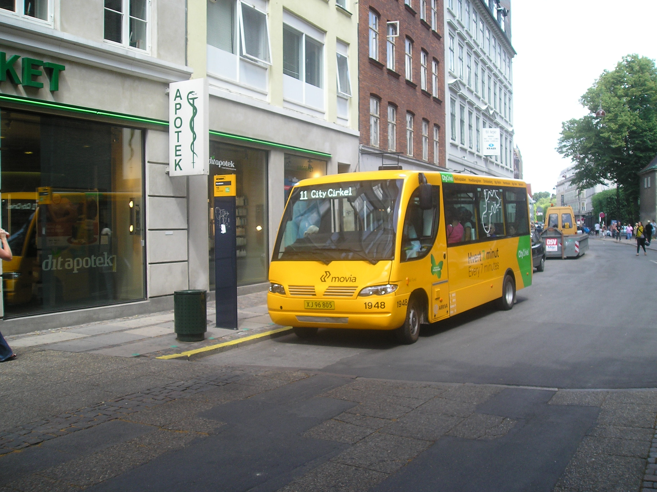 The bus line CityCirkel on Landemærket in Indre By in Copenhagen.